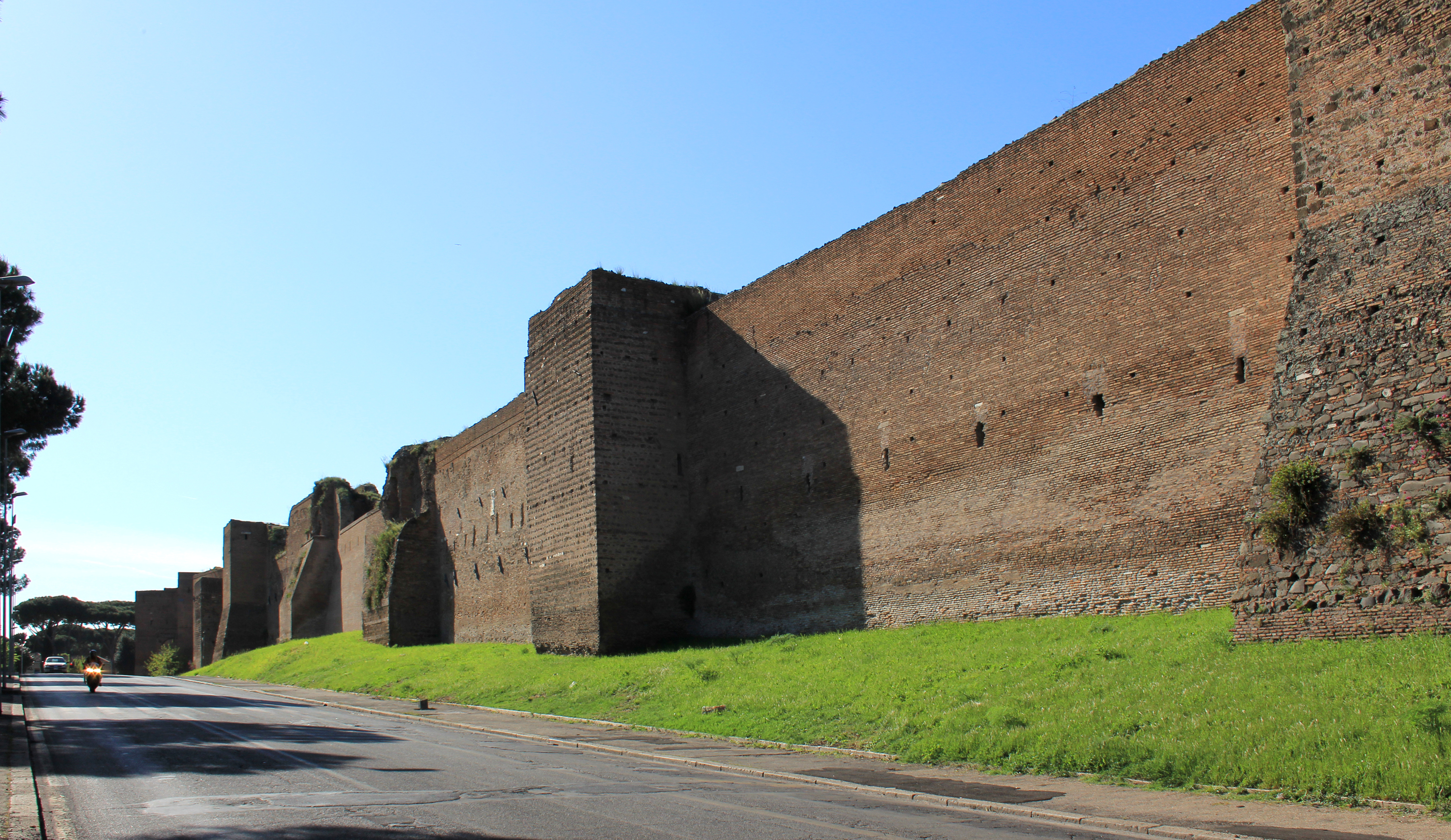 Southern part Aurelian Walls around of old Rome city near of Porta san Sebastiano in Italy